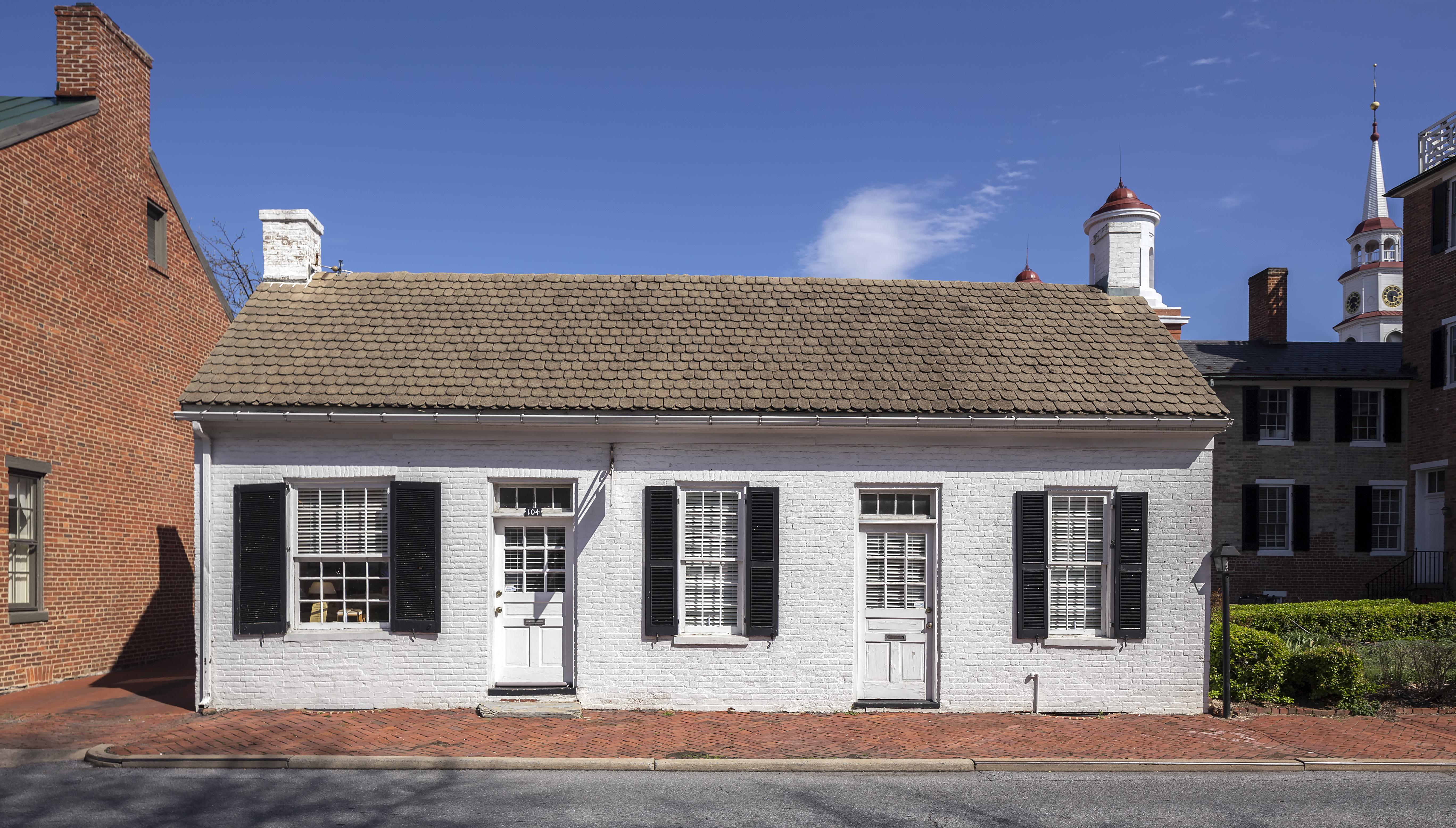 The building that housed the law office of Francis Scot Key in Frederick, Maryland, USA